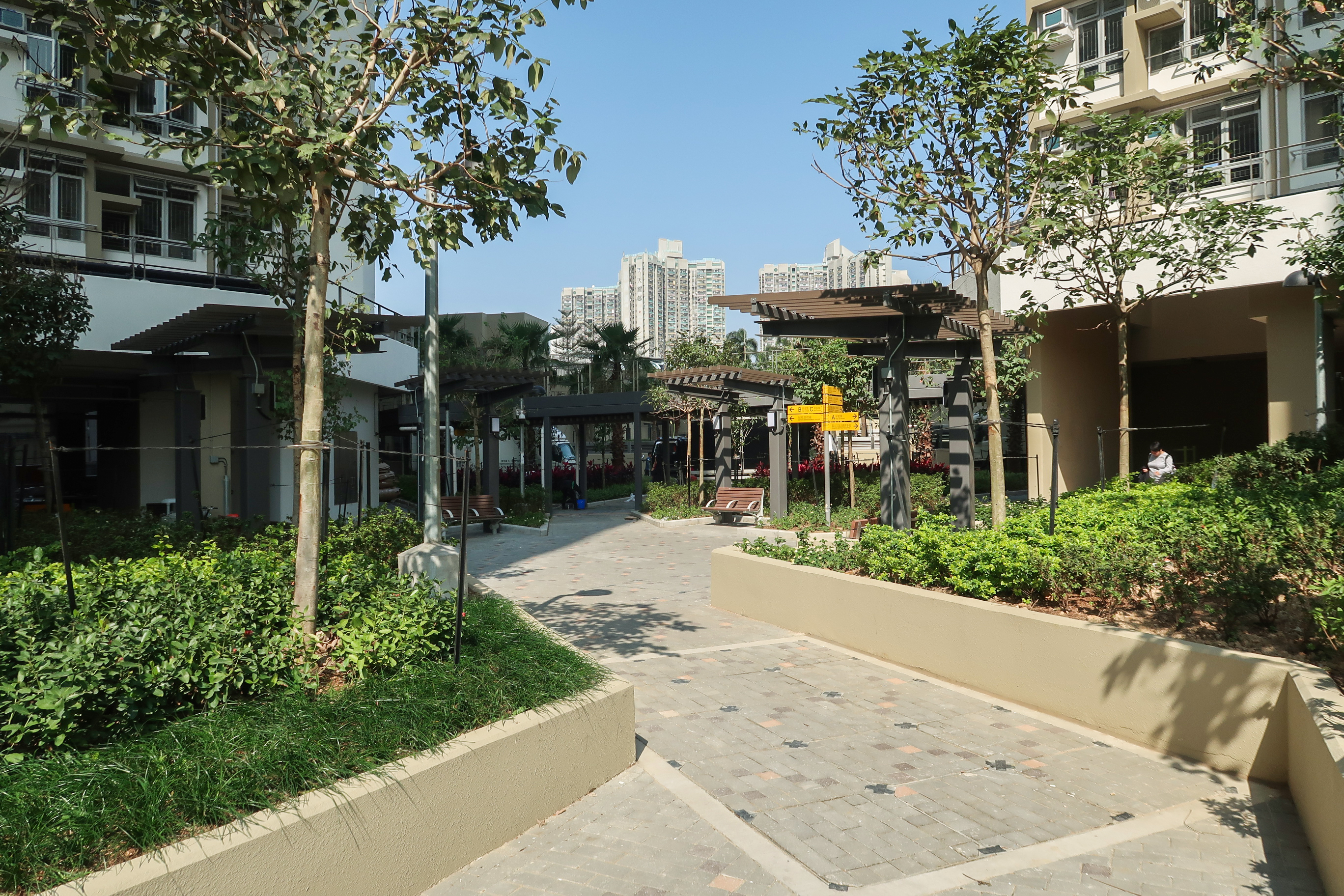 Ping Yan Court Courtyard